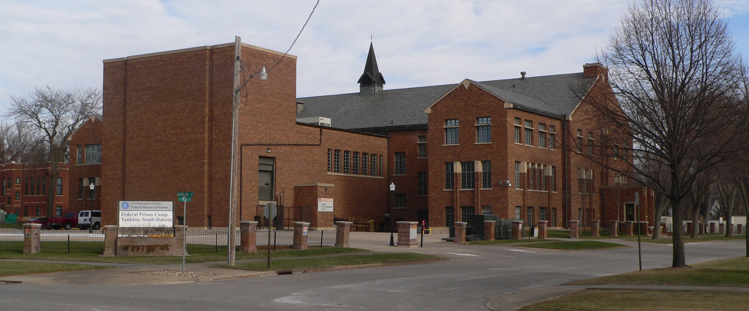 Federal Prison Camp, Yankton, formerly Yankton College, in Yankton, South Dakota.